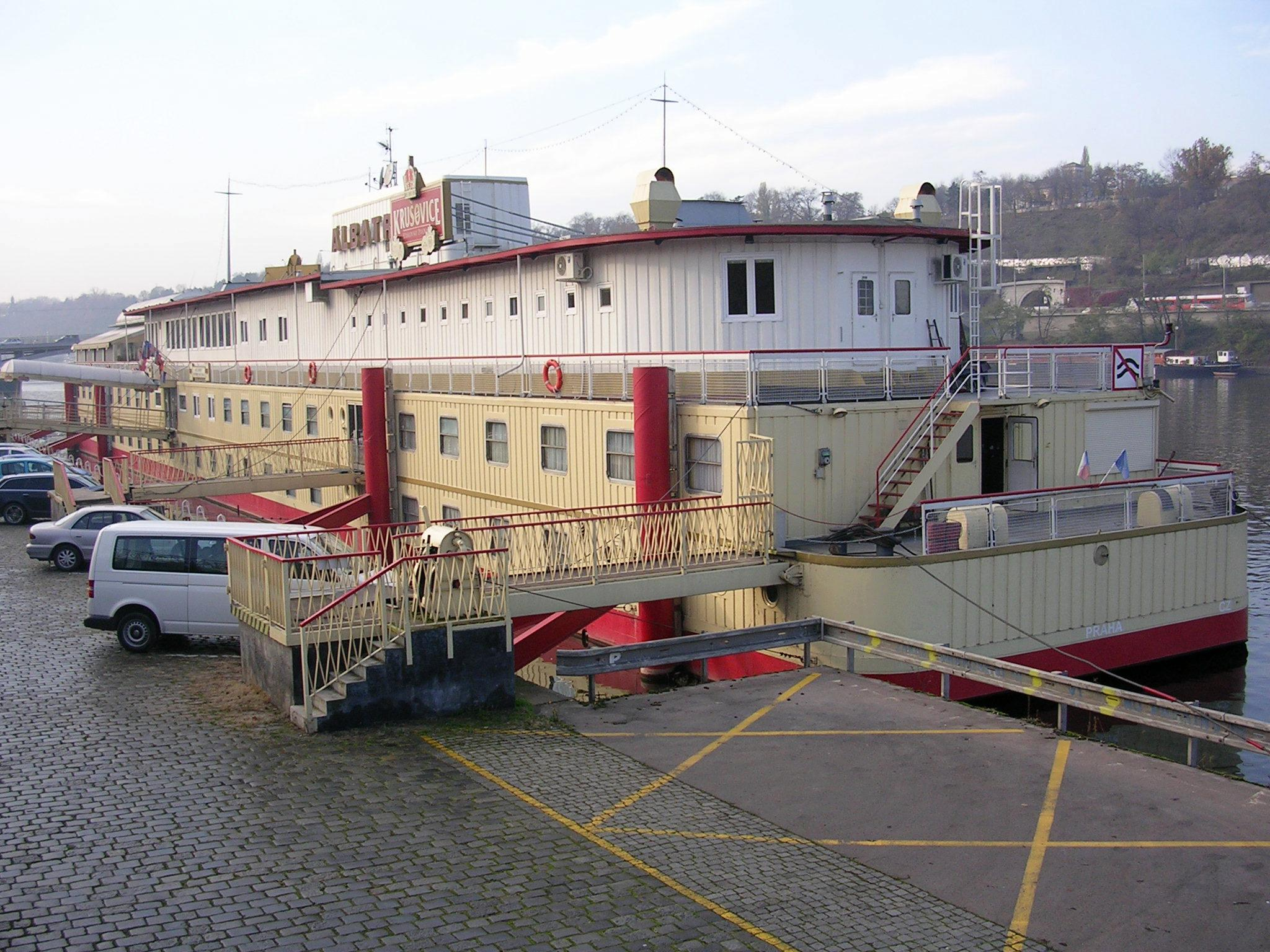 New Town, Prague. Albatros Botel.